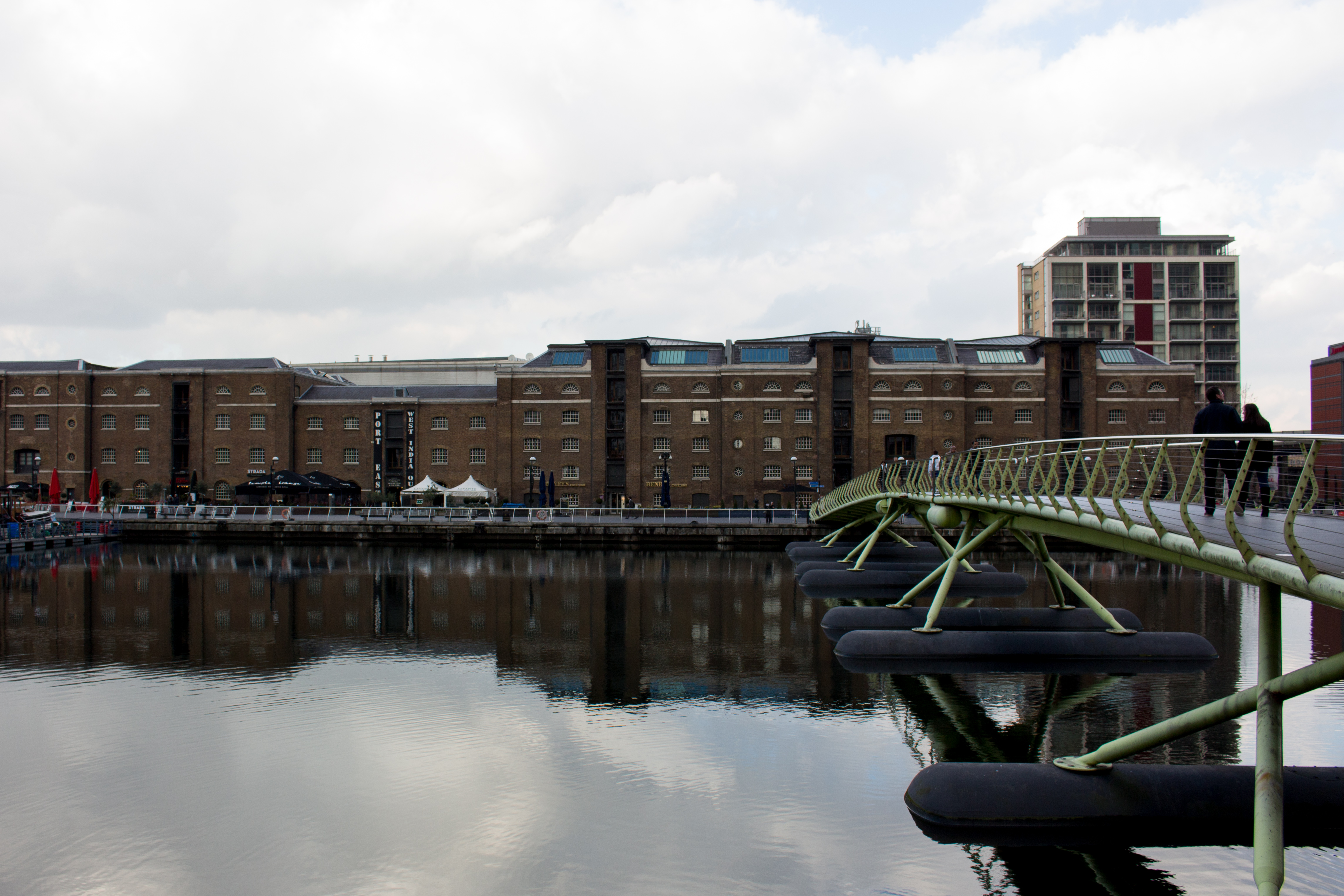 Floating bridge and North Quay, Canary Wharf